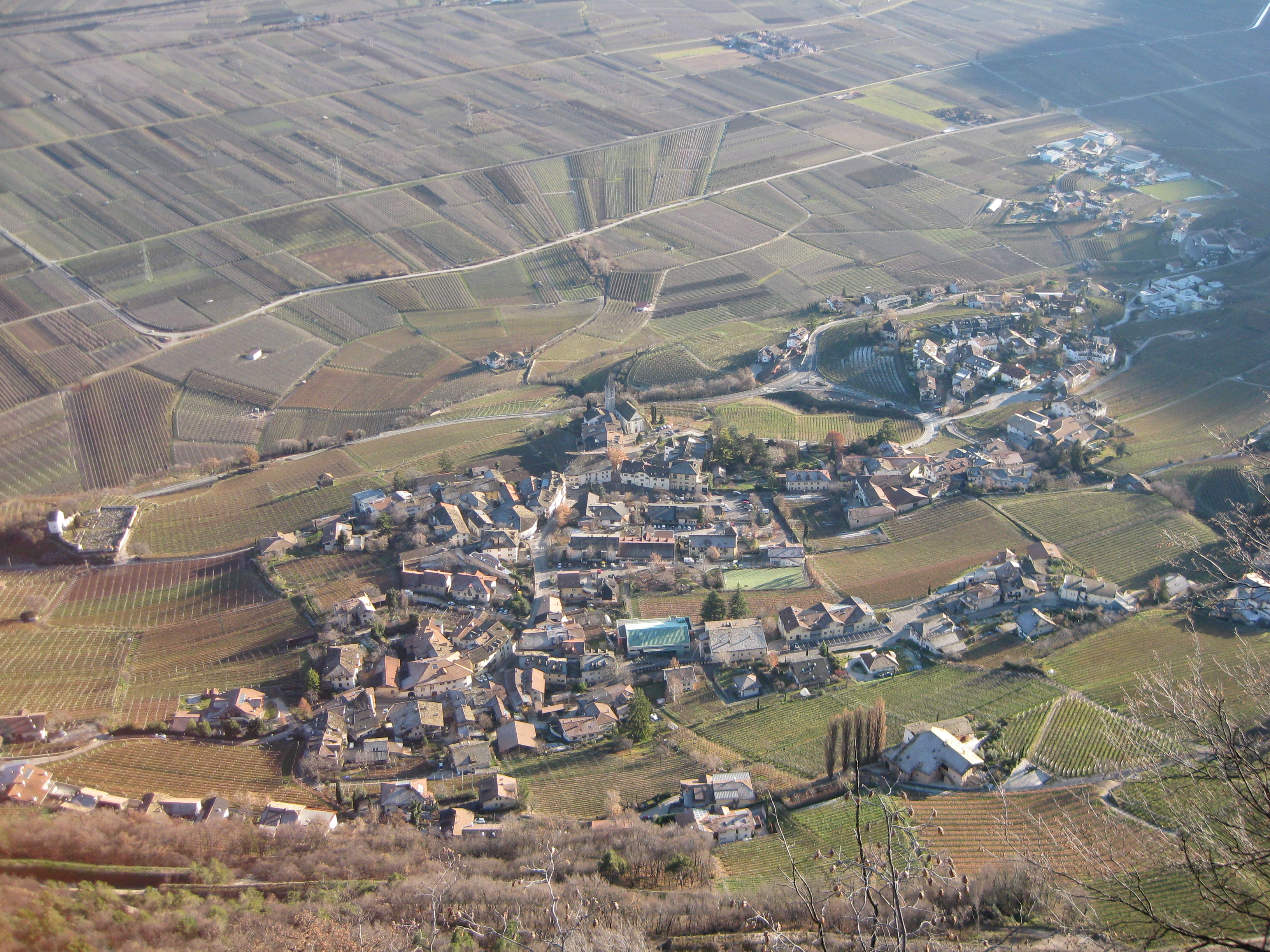 Kurtatsch as seen from the Sitzkofel in Graun